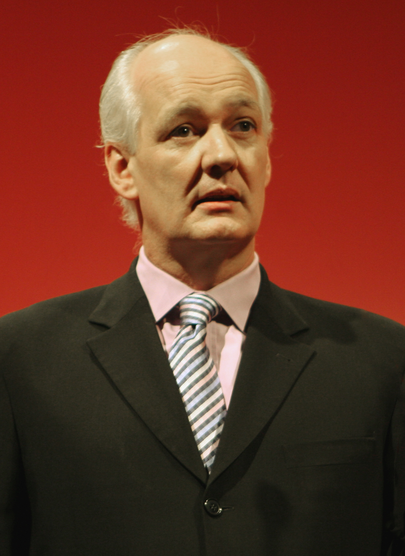 Colin Mochrie at a lectern speaking at the 2008 BANFF World Television Festival. Photographed with a Canon EOS Digital Rebel XT.